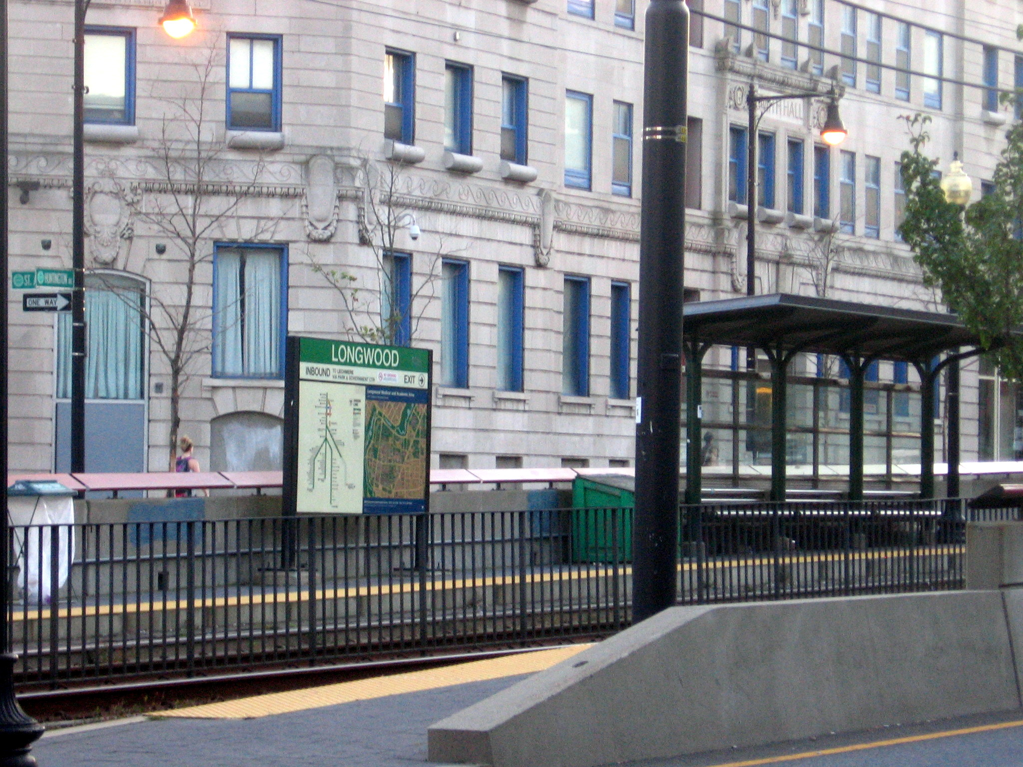 Longwood Medical Area station on the Green Line "E" Branch